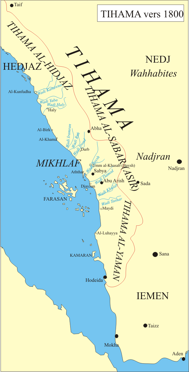 Tihama (includin Asir) region map c. 1800